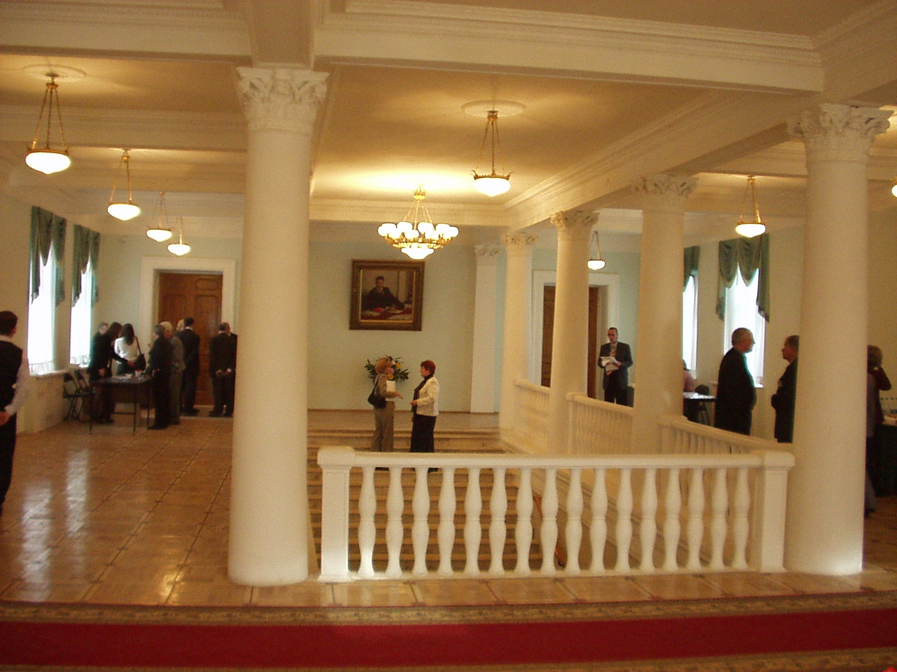 Kurchatov Institute, Moscow, November 2005